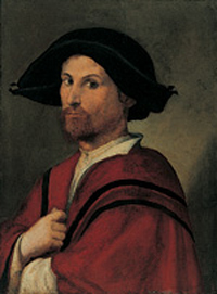 Portrait of Cesare Borgia (c. 1475-1507) (according to File:Renæssansemennesker.djvu, p. 67), although (English) Wikipedia currently uses a B/W version of this image to illustrate the article of Juan Borgia (c.1476-1497).